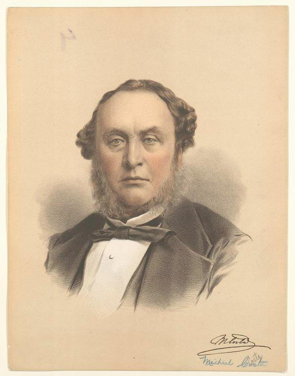 Source: New York Public Library Digital Gallery Joseph Muller Collection of Music and Other Portraits - PD due to its age